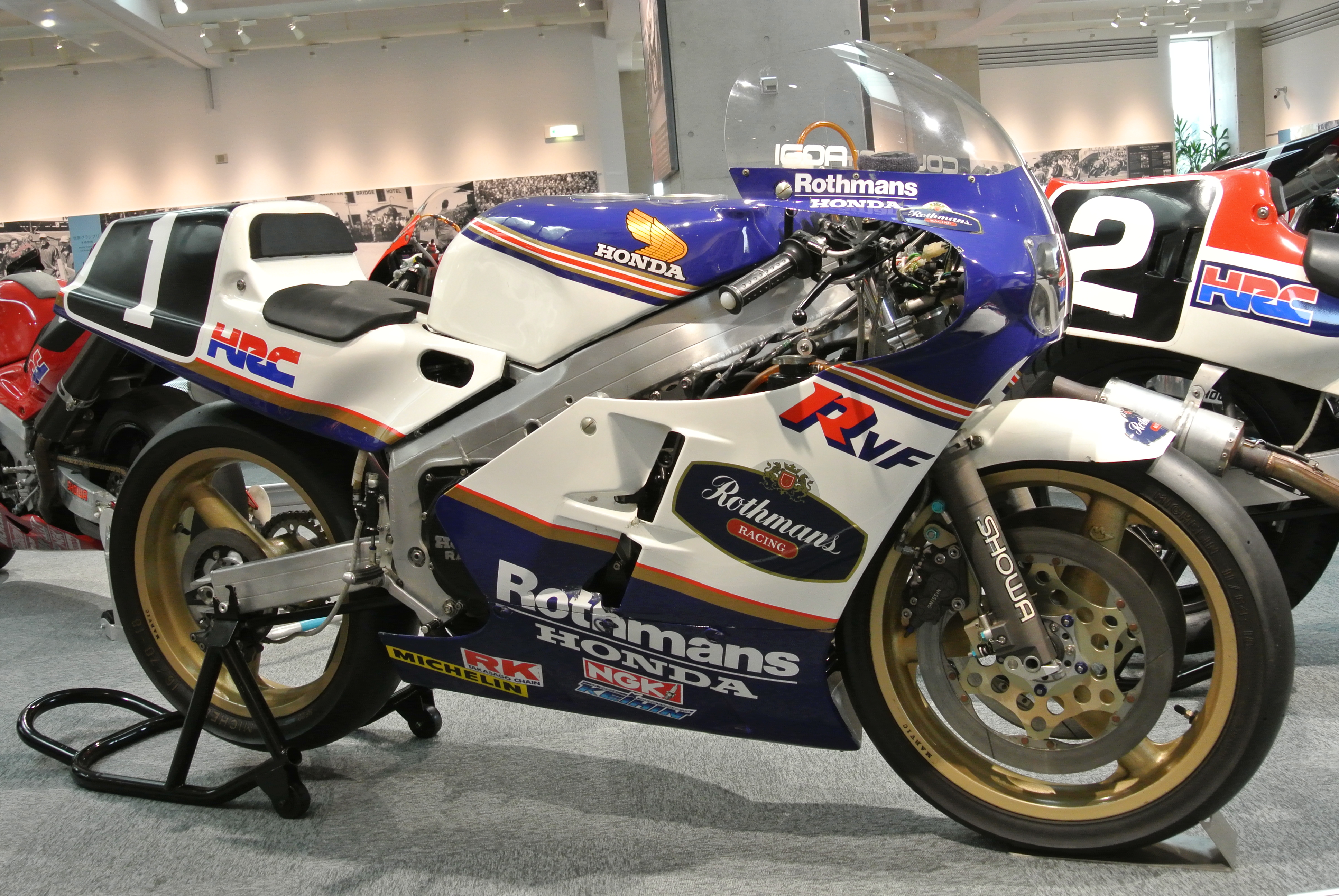 1985 Honda RVF750 in the Honda Collection Hall.